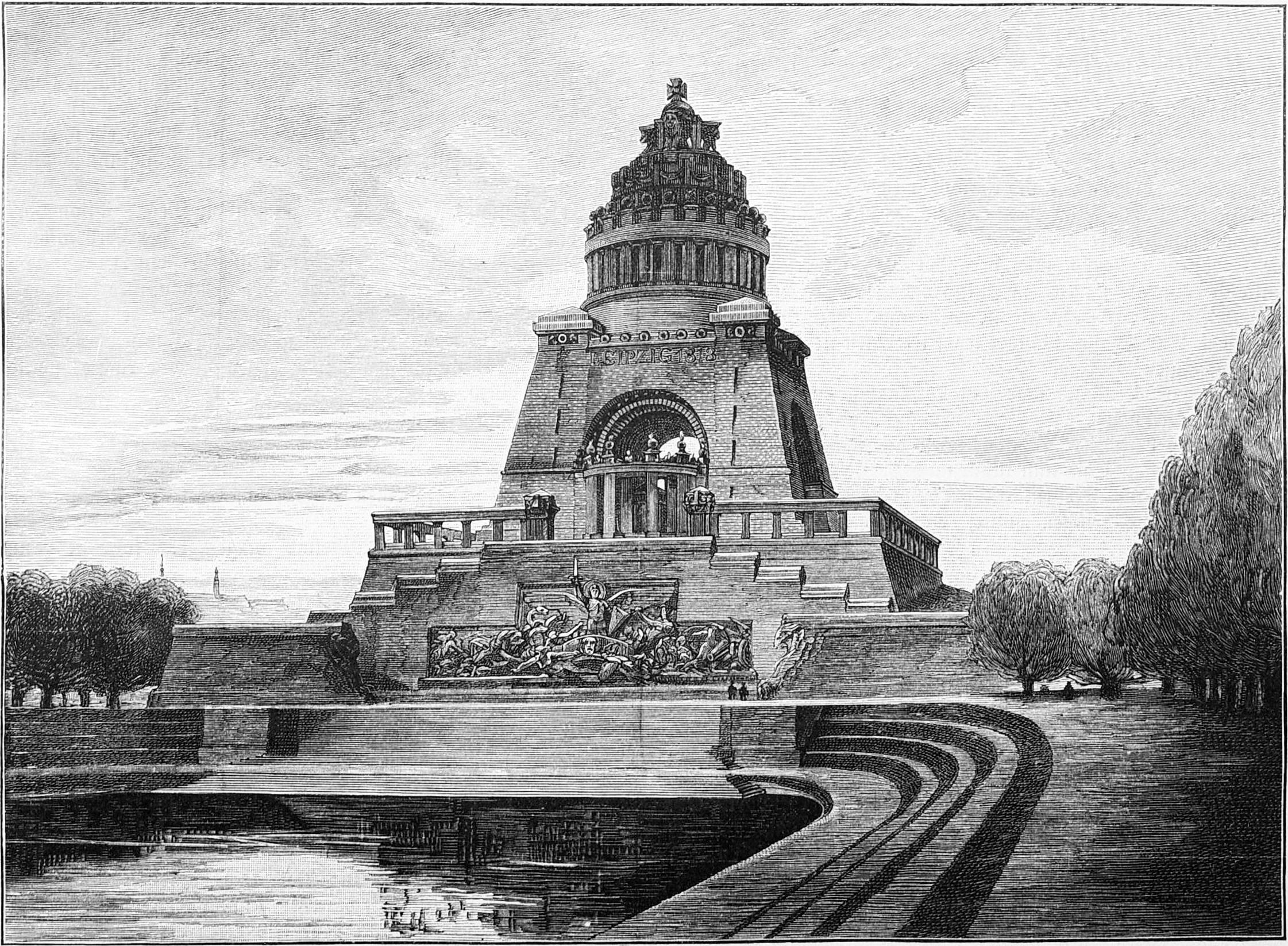 no caption